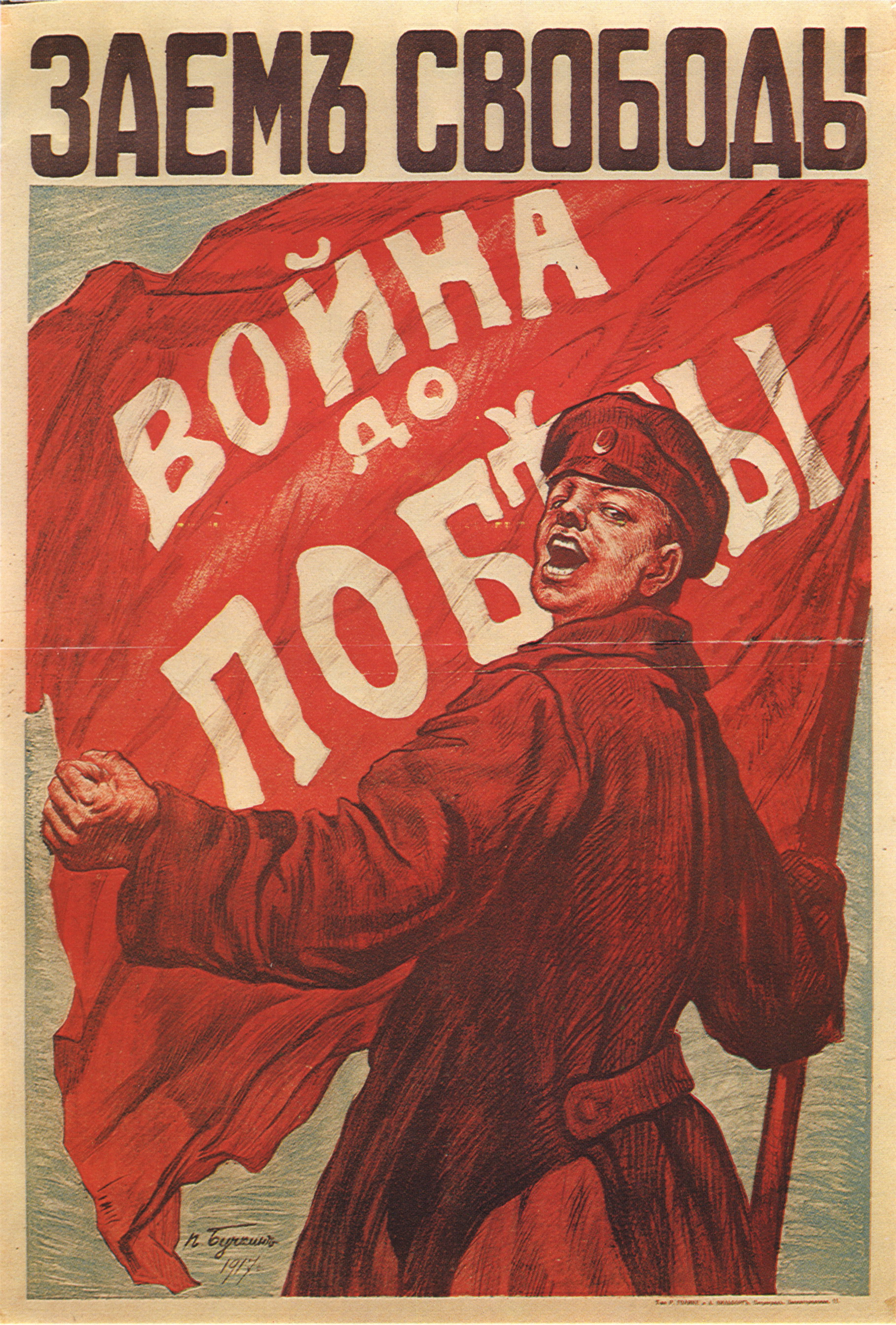 poster